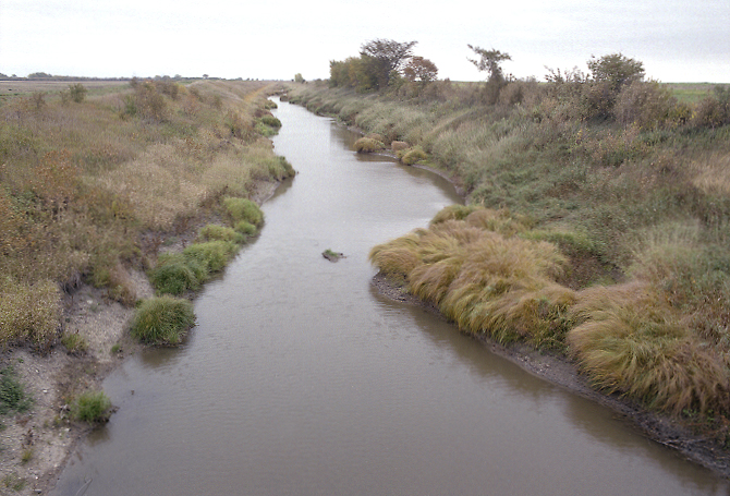 Photograph by Tim Kiser. A channelized portion of the Mustinka River in Redpath Township of Traverse County, Minnesota, en:6 October en:1996.